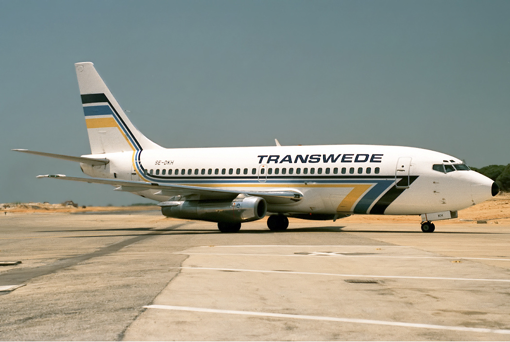 Transwede Boeing 737-205 SE-DKH at Faro Airport